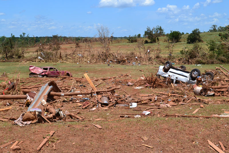 Swath of ground scouring and destroyed vehicles left behind by the EF4 Washington-Goldsby tornado.